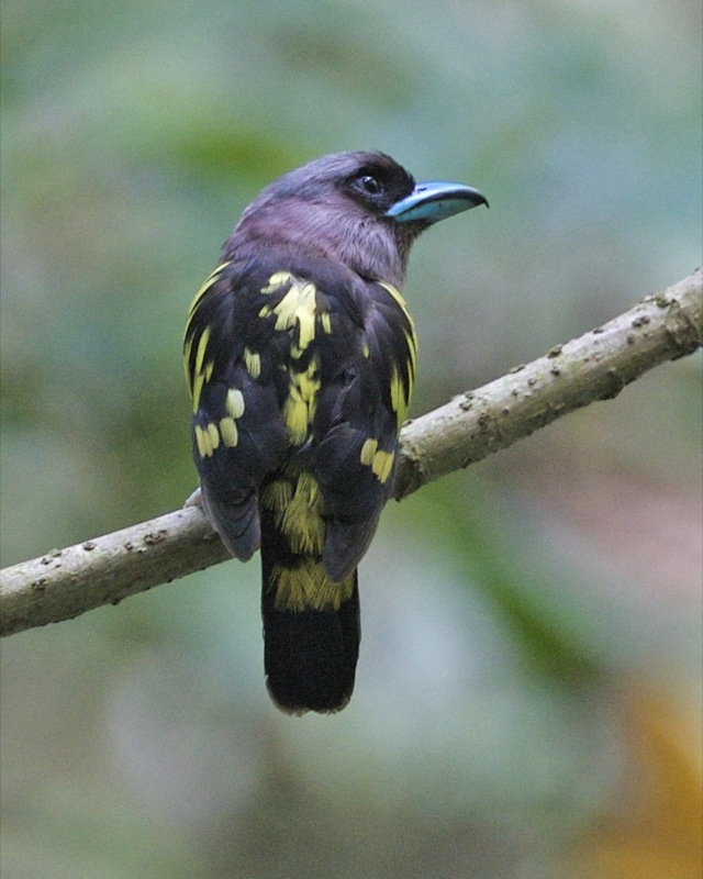 Banded Broadbill Eurylaimus javanicus ssp Eurylaimus javanicus brookei Poring Hot Springs, Sabah, Borneo, Malaysia 6th. June 2009 Distribution: 690V7406